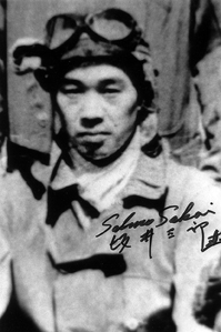 Japanese naval aviator Saburo Sakai wearing flightgear.